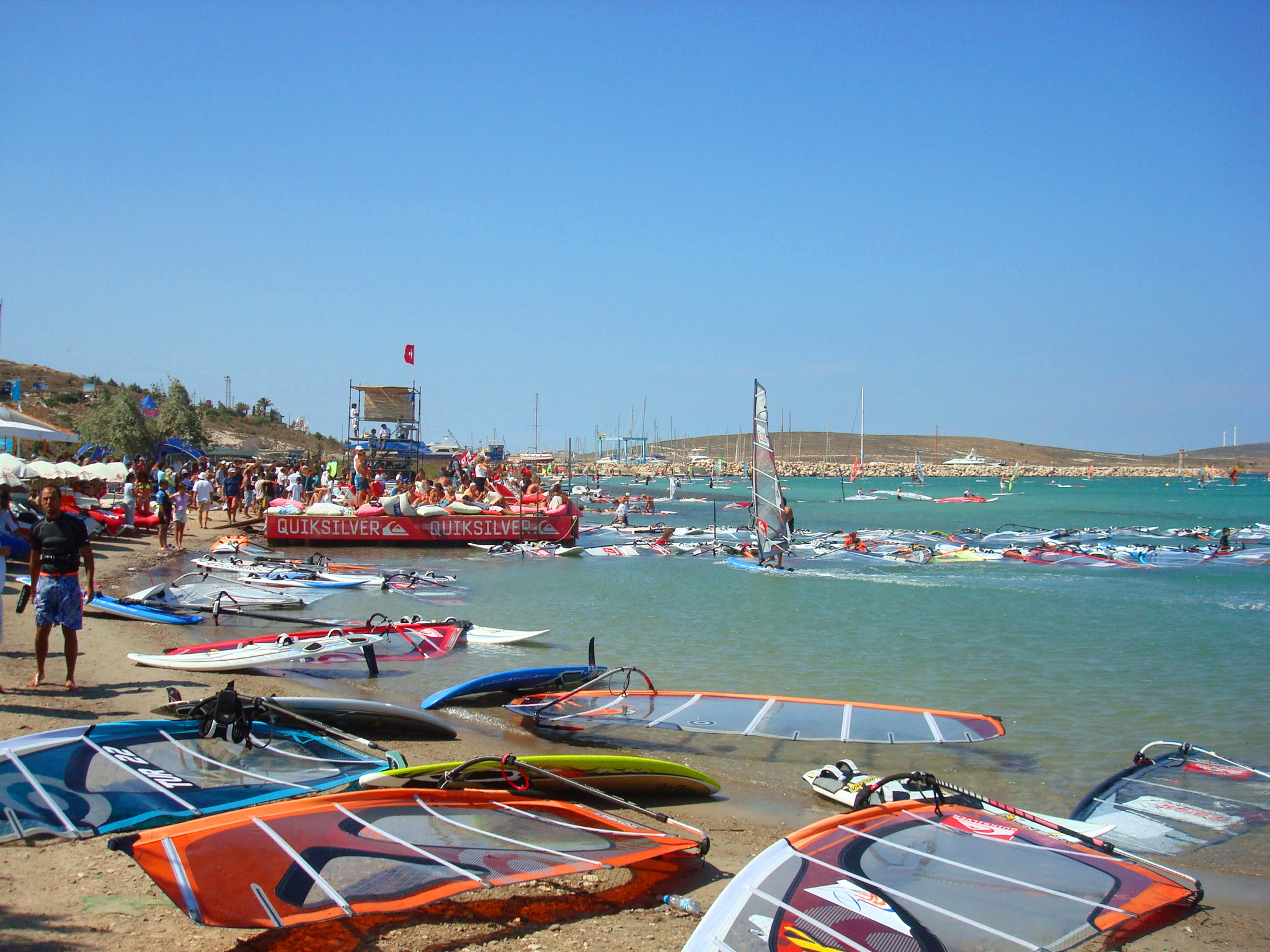 Surfers' beach in Alaçatı